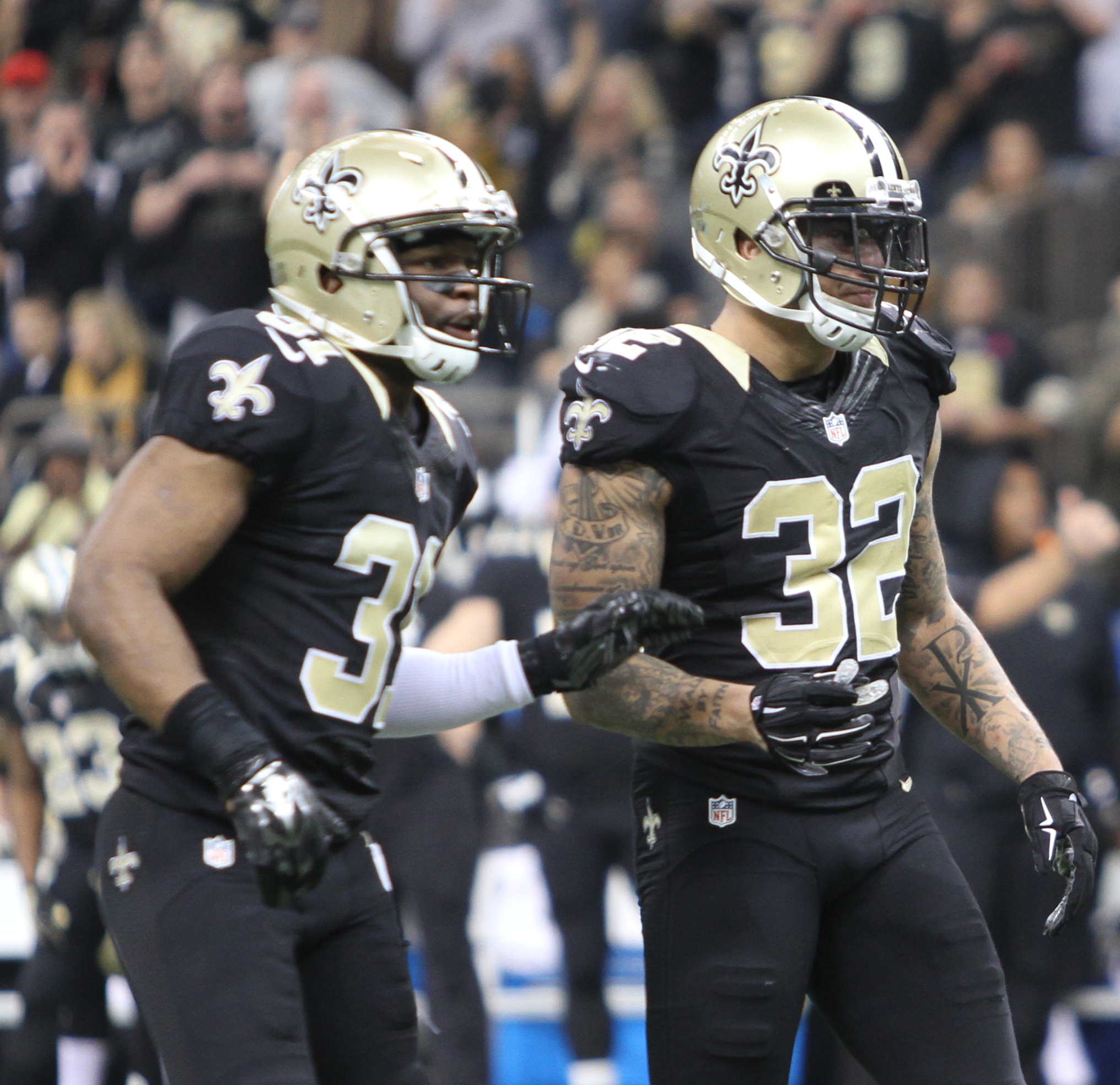 New Orleans Saints vs Carolina Panthers, December 6, 2015, Tammy Anthony Baker, Photographer